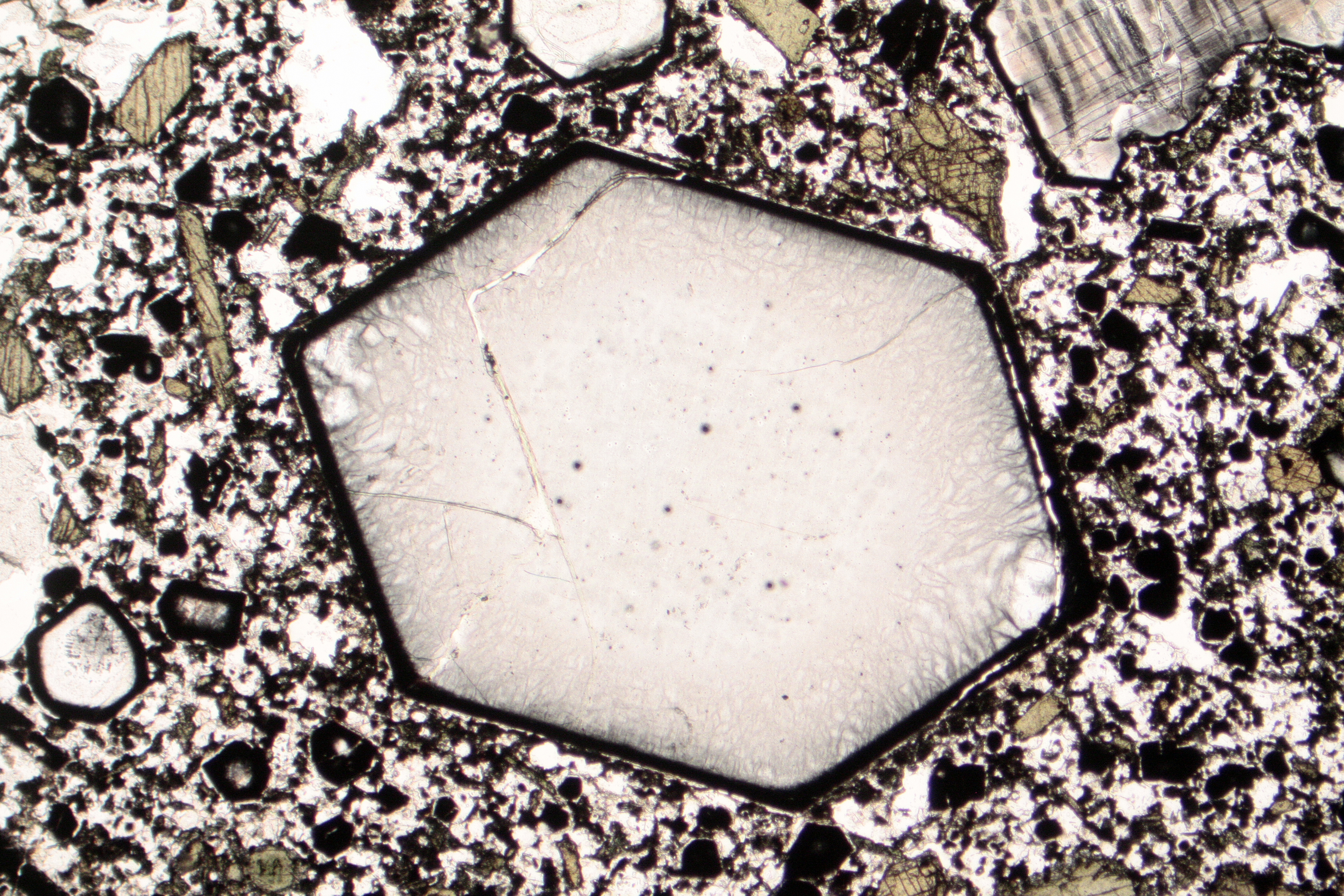 Haüyne phenocryst in a Haüyne foidite from Melfi (Potenza, Italy). Plane polarized light image, magnification 10x (Field of view = 2mm)